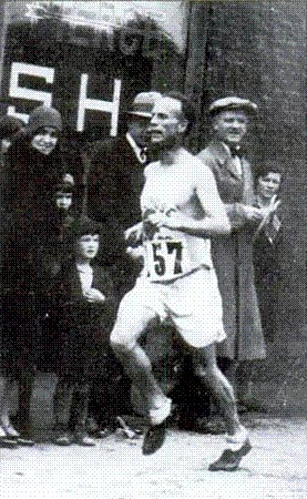 Clarence DeMar, Athlet and medalwinner at the 1924 Olympic Games photography, reproduction, no restrictions on use Copyright: free of charges